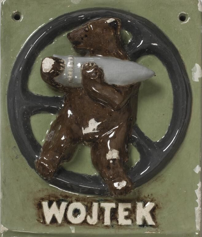 Wojtek - Polish Bear cermaic plaque.